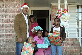 Jarvis gives aways toys for Christmas